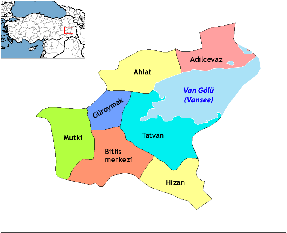 Map of the districts of Bitlis province in Turkey. Created by Rarelibra 18:56, 1 December 2006 (UTC) for public domain use, using MapInfo Professional v8.5 and various mapping resources. Edited by One Homo Sapiens: Corrected text where İ,Ş,ı,ğ,or ş occurs in name. Source: [statoids-com]. Increased font size and enhanced color differences among adjacent districts. Edited by Chumwa: Added Van Gölü